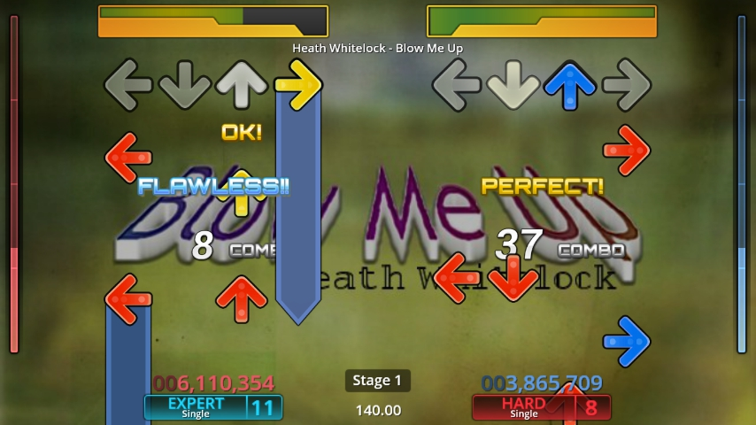 Screenshot demonstrating gameplay in StepMania 5.0.5